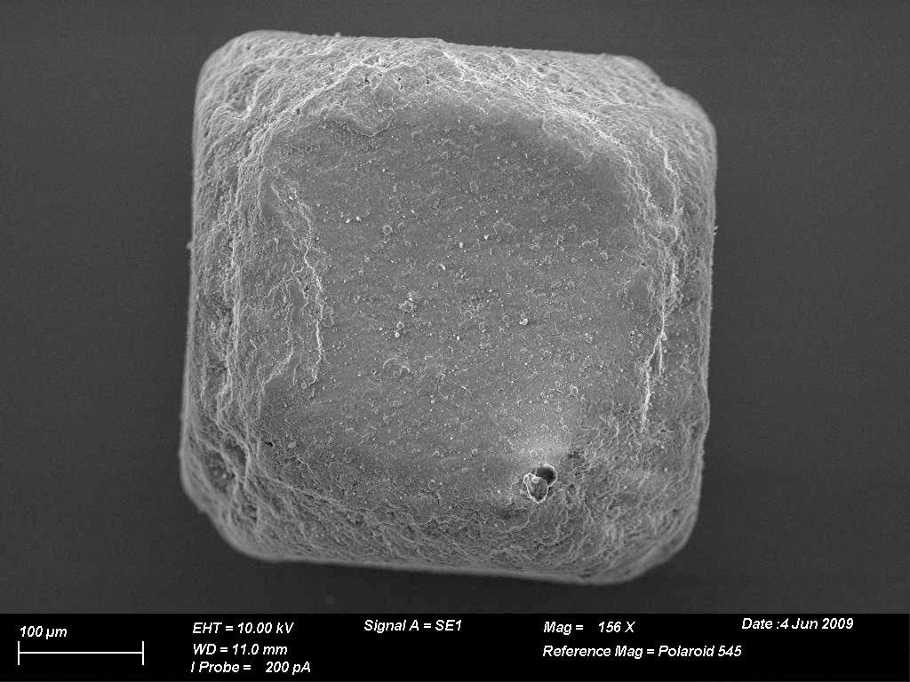 An image of a grain of table salt taken using a scanning electron microscope.